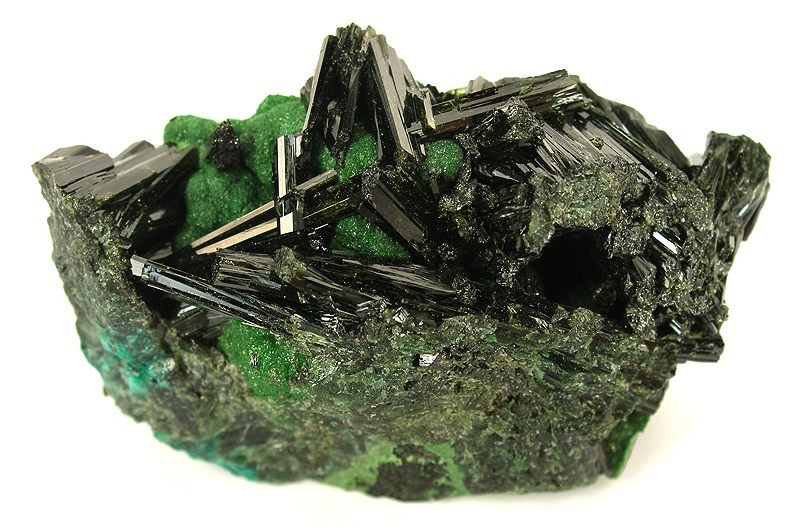 Olivenite, Duftite Locality: Tsumeb Mine (Tsumcorp Mine), Tsumeb, Otjikoto (Oshikoto) Region, Namibia (Locality at ) Size: 5.6 x 3.3 x 2.1 cm. These olivenites have an incredible glassy lustre, and the elongated stereotypical crystal habit is quite rare. These crystals, isolated on contrasting matrix of microcrystalline duftite, really leap out at you. Crystals to 1.4 cm in size. Probably a very old piece from the upper oxidation levels of Tsumeb, and 100 years old.